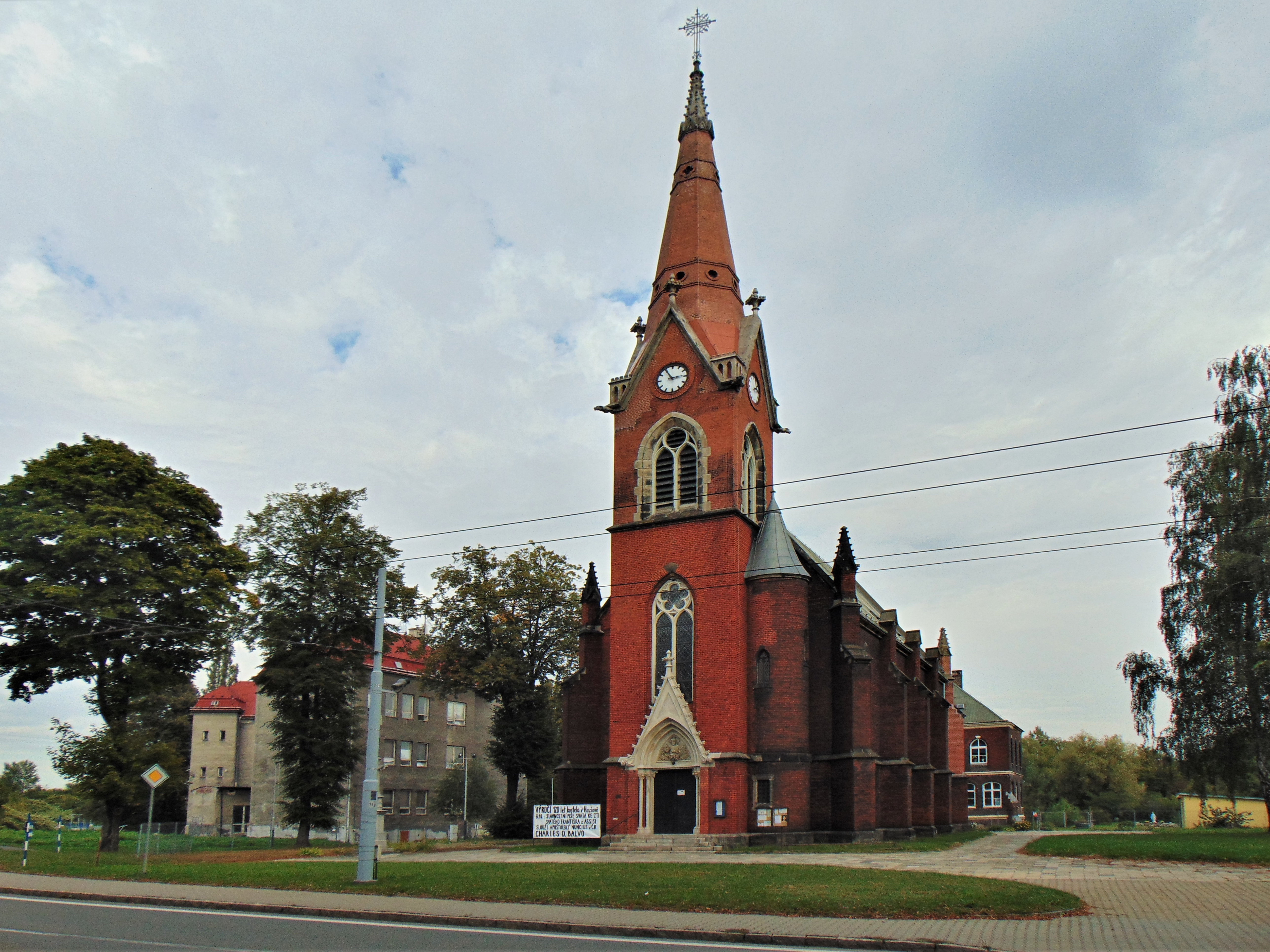 Church of St. Francis and St. Victor in Ostrava-Hrušov